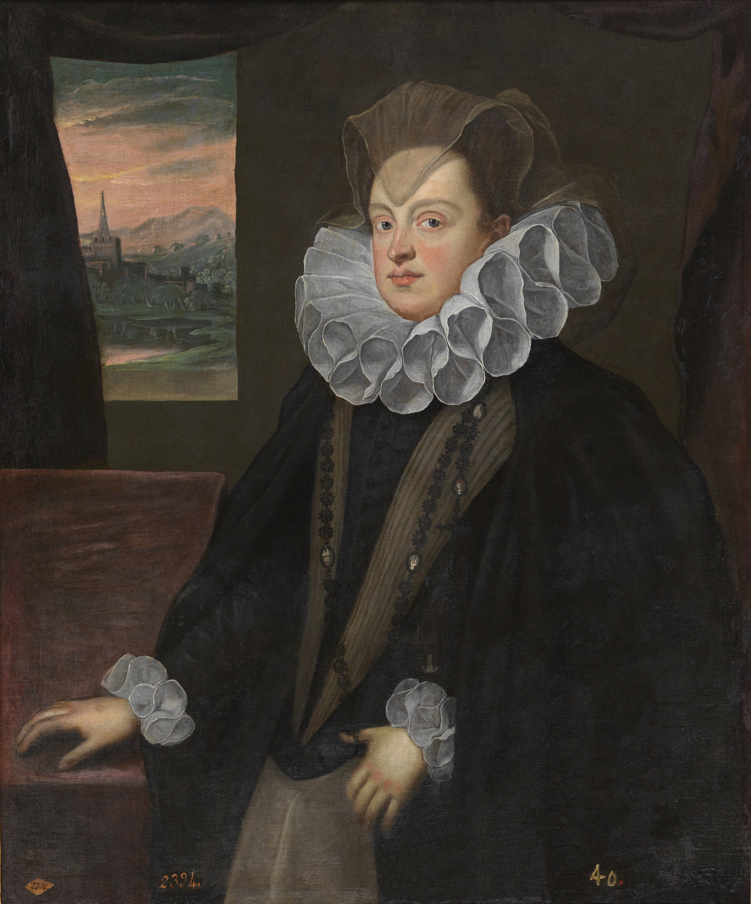 Eleanor de' Medici, duchess of Mantua (1567-1611)